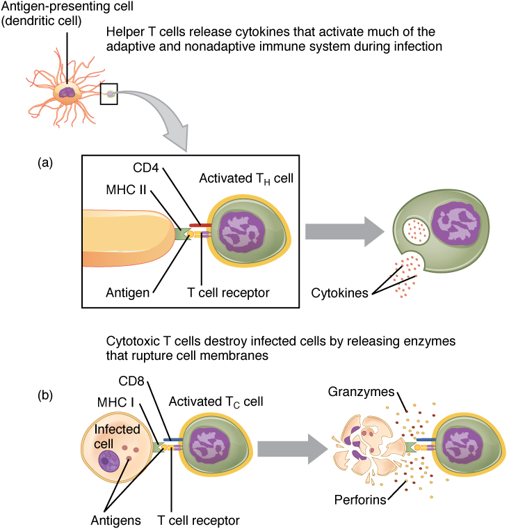 Illustration from Anatomy & Physiology, Connexions Web site. Jun 19, 2013.